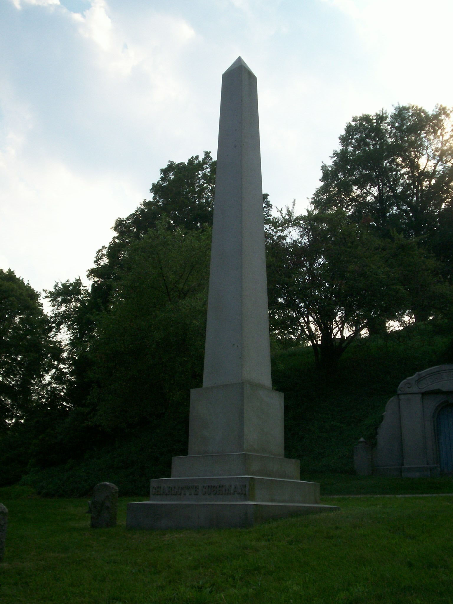 Grave of Charlotte Cushman at Mount Auburn Cemetery in Cambridge, Massachusetts.